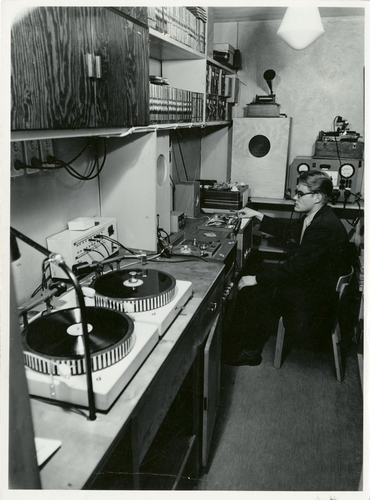 Photograph of the folklorist Lauri Honko (1932–2002) at the recording studio of Suomalaisen Kirjallisuuden Seura.